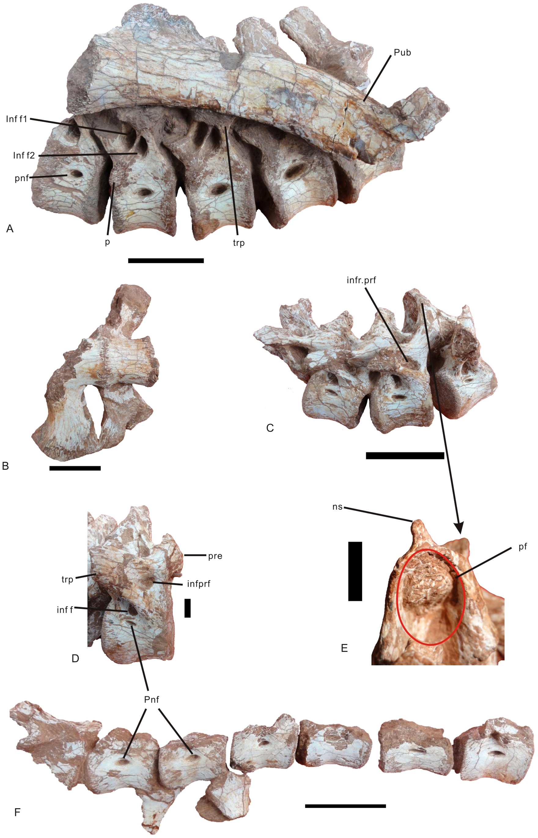 Vertebral column of Nankangia (GMNH F10003). A, Dorsal vertebrae in left lateral view (partially obscured by adhered pubis); B, Sacral vertebrae in ventral view; C, Cranial caudal vertebrae in right lateral view; D, Detail of cranial-most caudal vertebra in right lateral view; E, Cranial caudal neural spine in posterior view; F, Middle and posterior caudal vertebrae in right lateral view. Abbreviations: inf f., infradiapophyseal fossa; infr f1., infradiapophyseal fossa 1; infr f2., infradiapophyseal fossa 2;, infr. prf., infraprezygapophyseal fossa; ns., neural spine; p., parapophysis; pf., posterior fossa on the neural spine; pnf., pneumatic fossa; pre., prezygapophysis; pub., pubis; trp., transverse process. Scale bars = 1 cm in D, E; others are 5 cm.